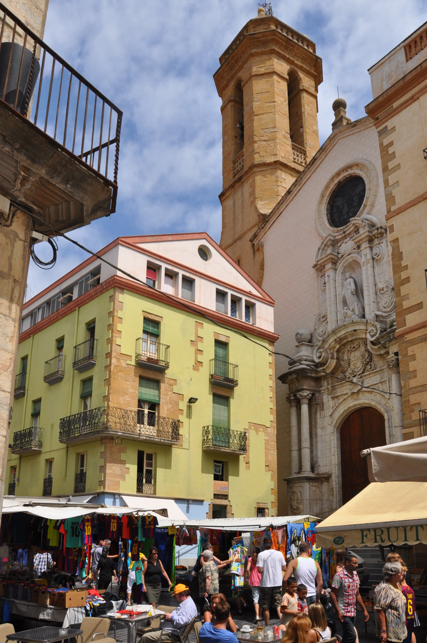 Weekly market on Main Square (Plaça Major) in La Bisbal d'Empordà (Baix Empordà, Catalonia, Spain) with the Santa Maria church.